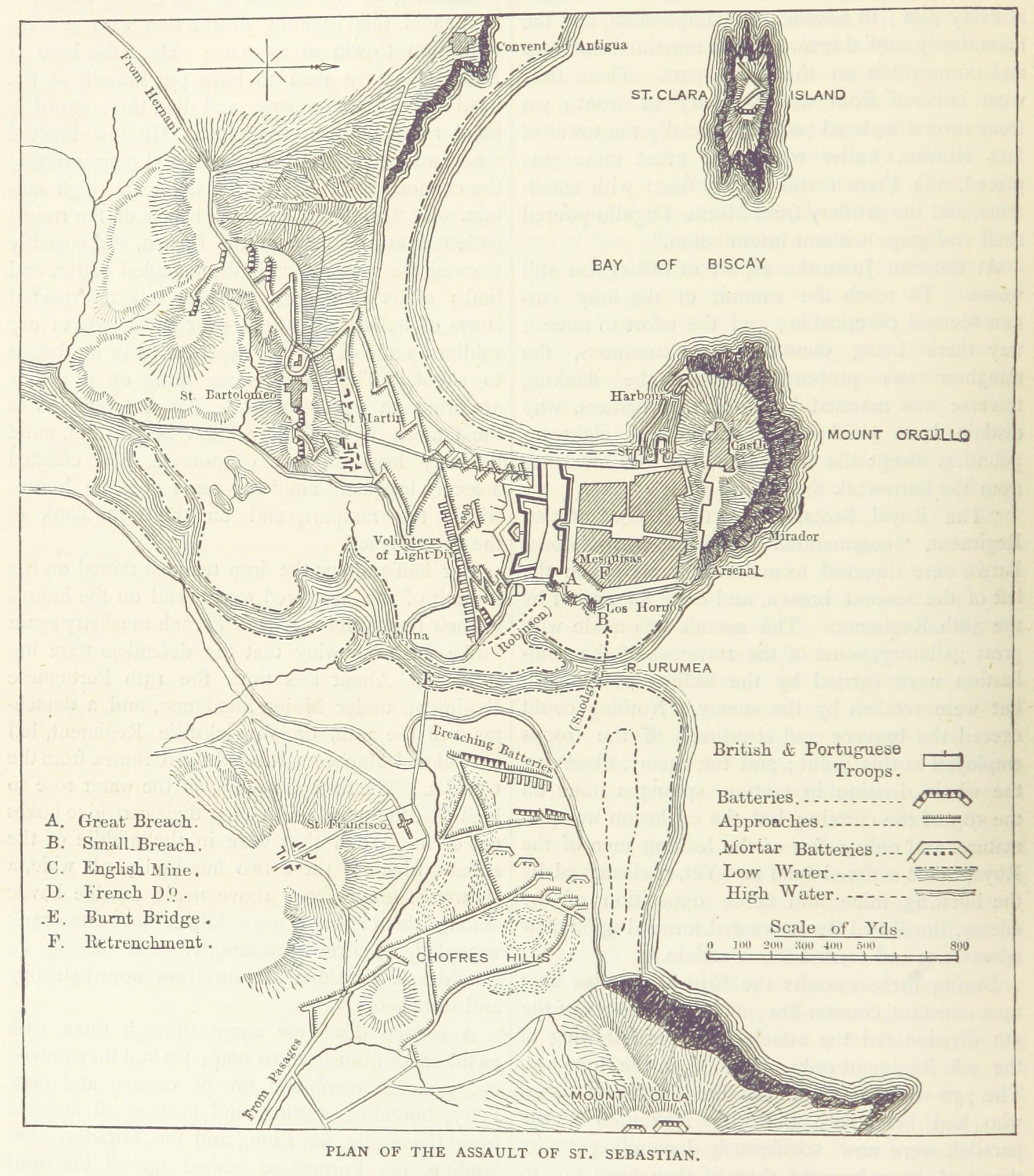 An 1871 map of the Siege of San Sebastián